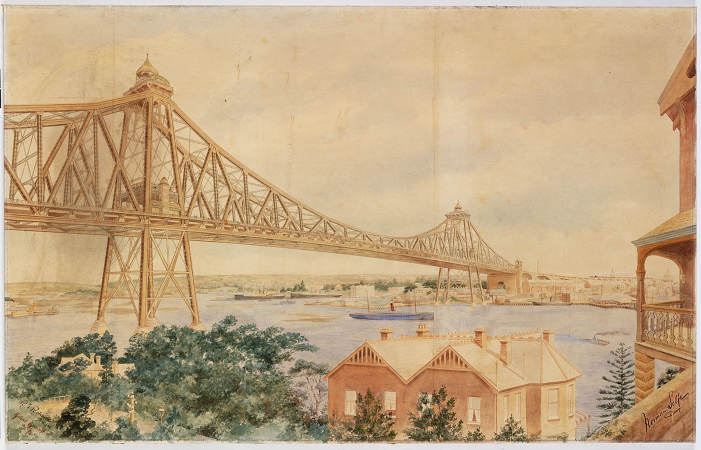 [Proposed Sydney Harbour Bridge, ca.1903] / Norman Selfe Design, R. M. Robinson Mech. Del., Herbert Beecroft Pinxt. From the collection of the State Library of NSW Call Number ML 1401 Digital Order No. a1528191